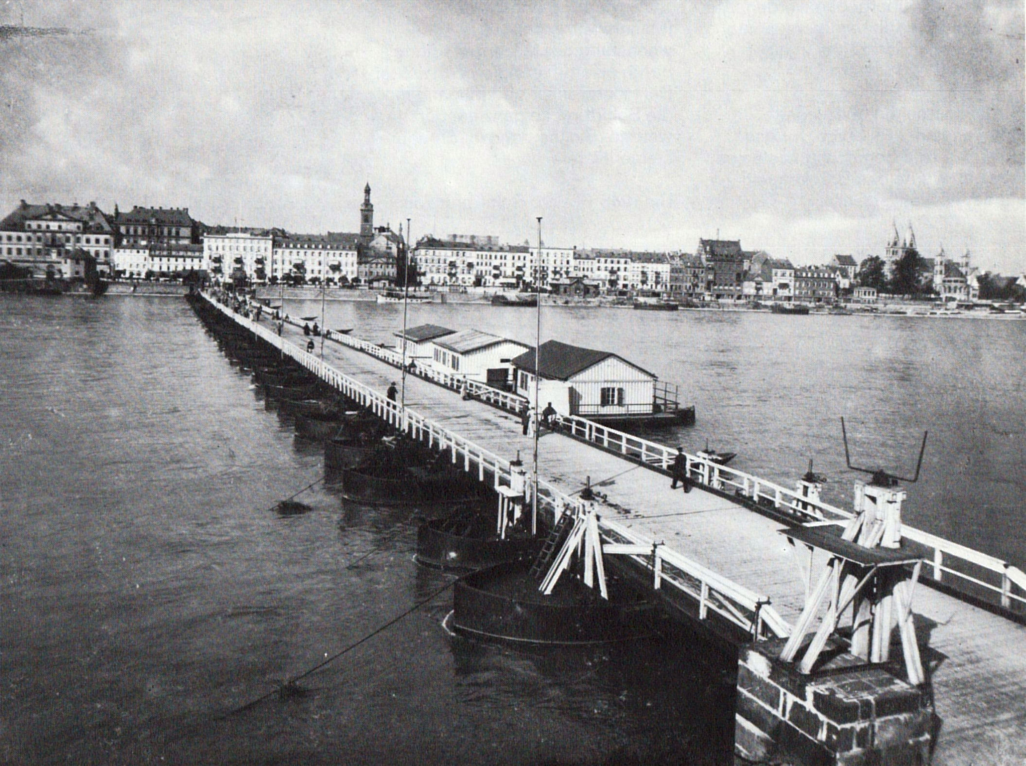 Floating bridge in Koblenz